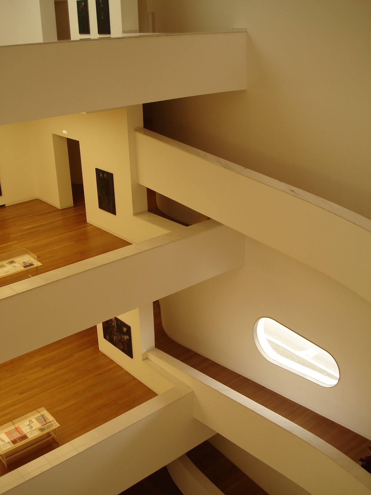 Iberê Camargo Fundation, in Porto Alegre, Brazil.